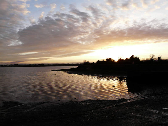 Winter sunset on the Broadmeadows estuary